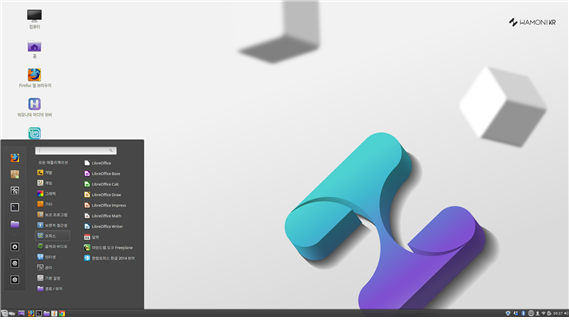 Hamonikr UI